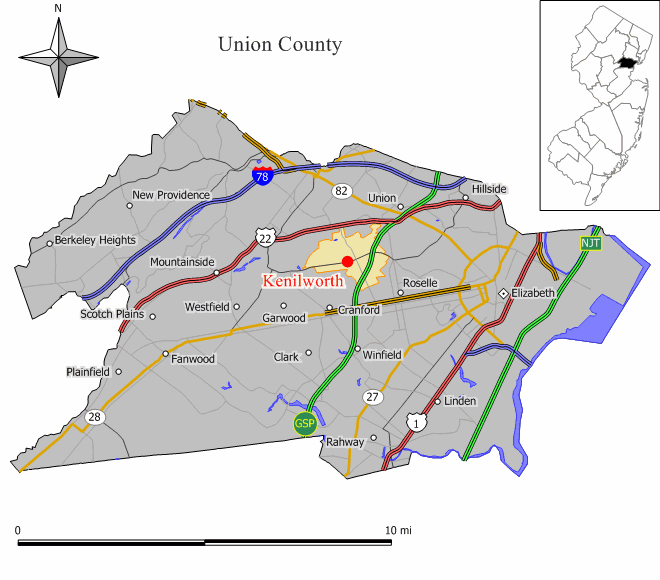 Source: Jim Irwin Original work by Jim Irwin, December 2005.